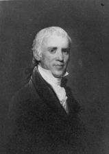 From the U.S. Senate historical office